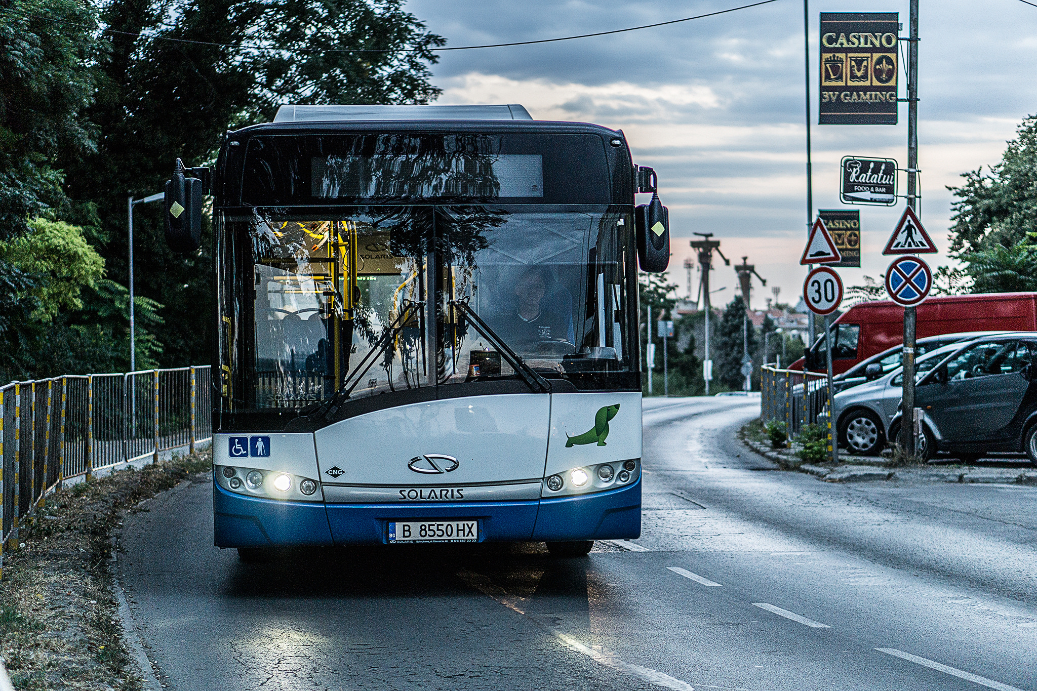 A Solaris bus in Varna Bulgaria